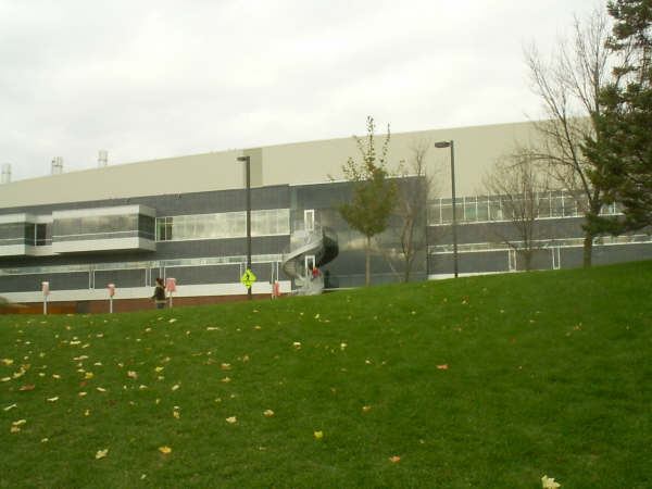 Swenson Science Building at the University of Minnesota Duluth, Matthew J. S. Denn